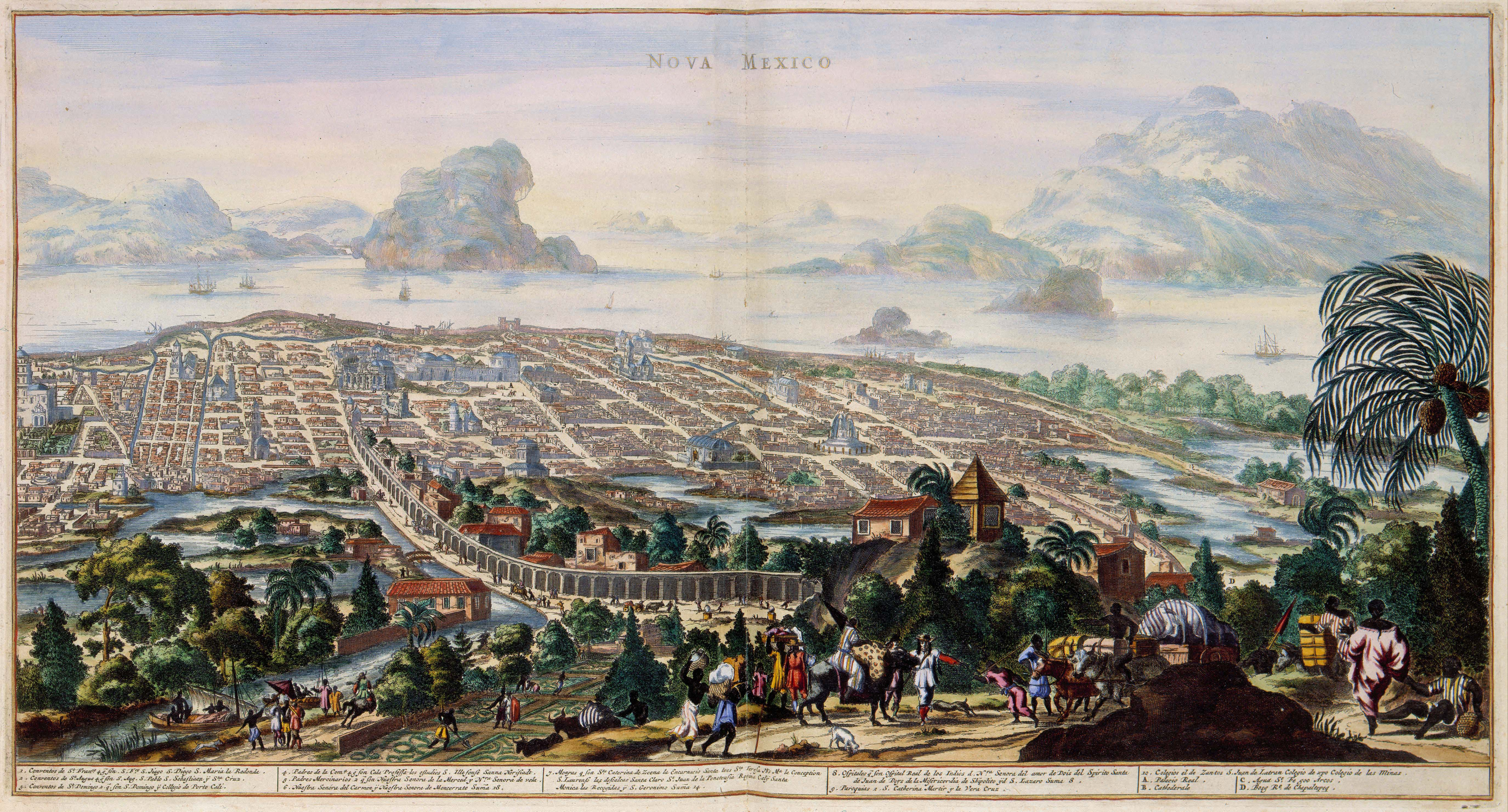 This unsigned view on the city of Mexico was probable published as book illustration in Amsterdam around 1700. Its engraver is unknown.